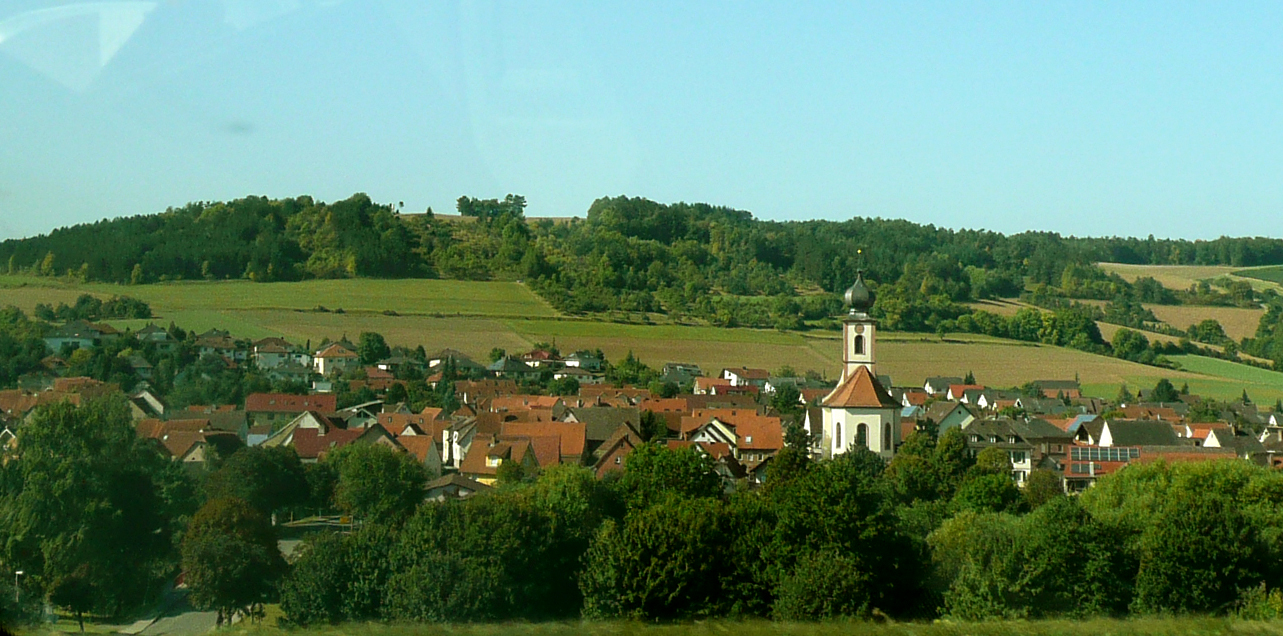 Dittigheim, village south of Tauberbischofsheim, Baden-Wuerttemberg